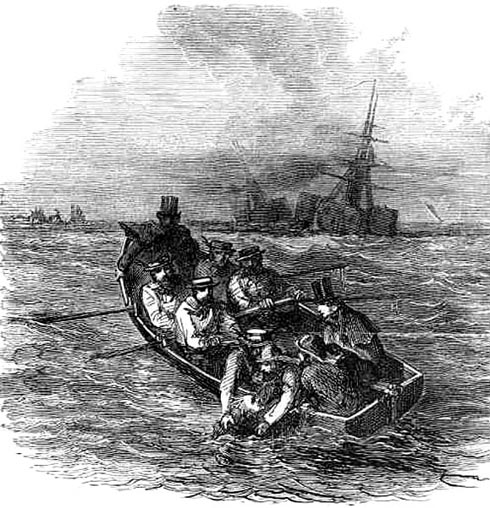 Great Expectations, Magwitch is arrested after his capture on the river Thames when trying to be spirited away to France, by John McLenan.